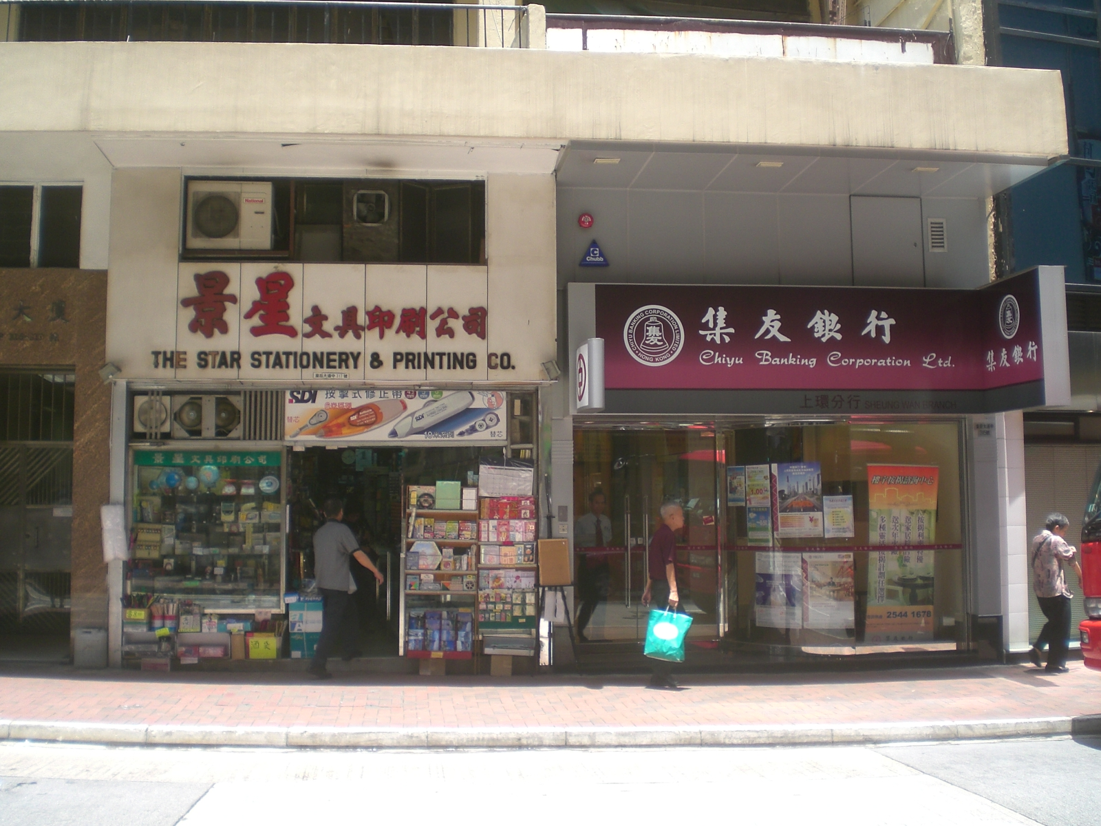 上環街景 香港zh:集友銀行 利豐大廈 皇后大道中